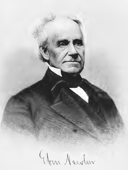 Ohio politician Eben Newton